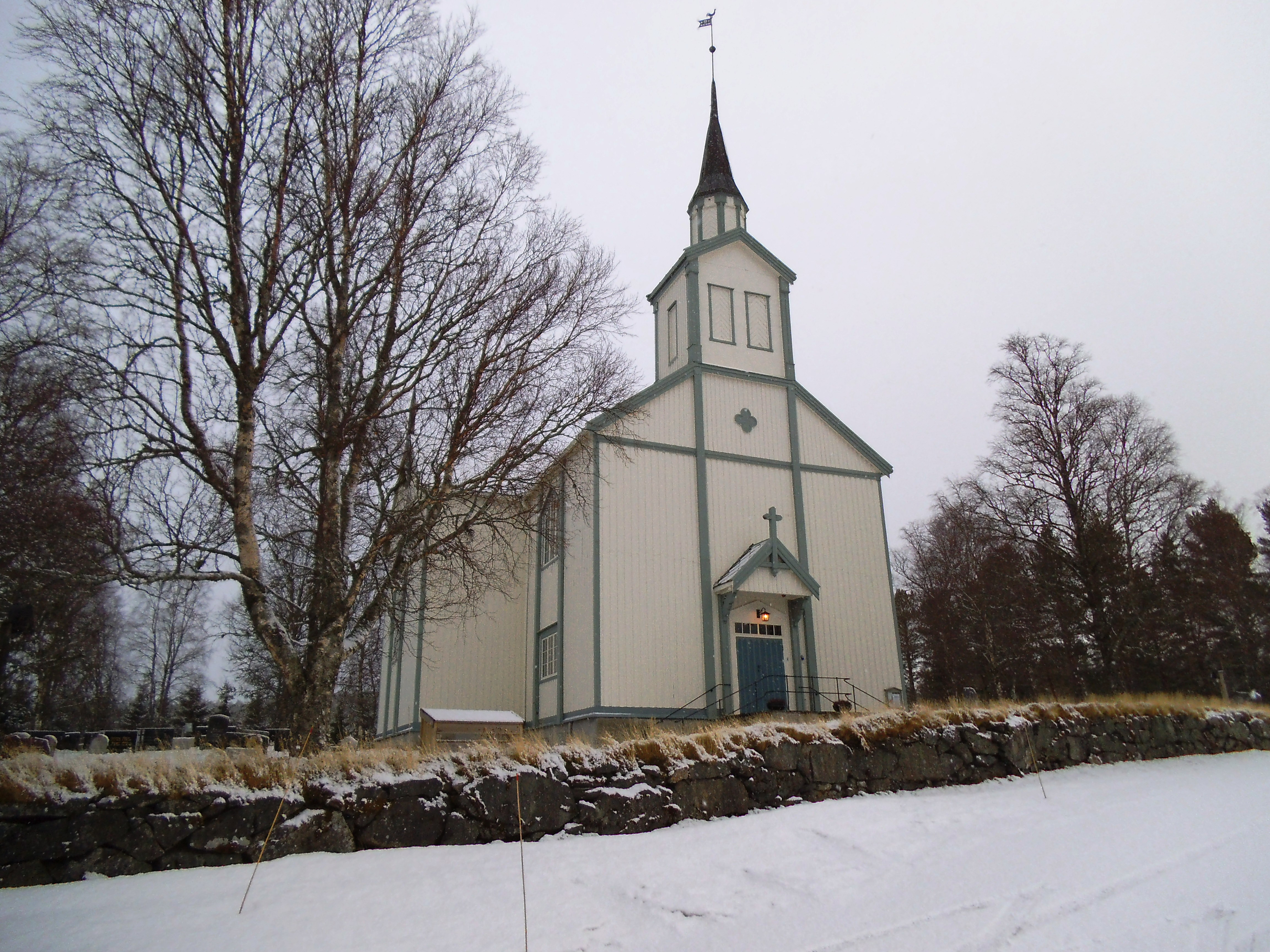 Hølonda kirke. A church located in Hølonda, Melhus, Norway. It was built in 1848 and is made of wood.